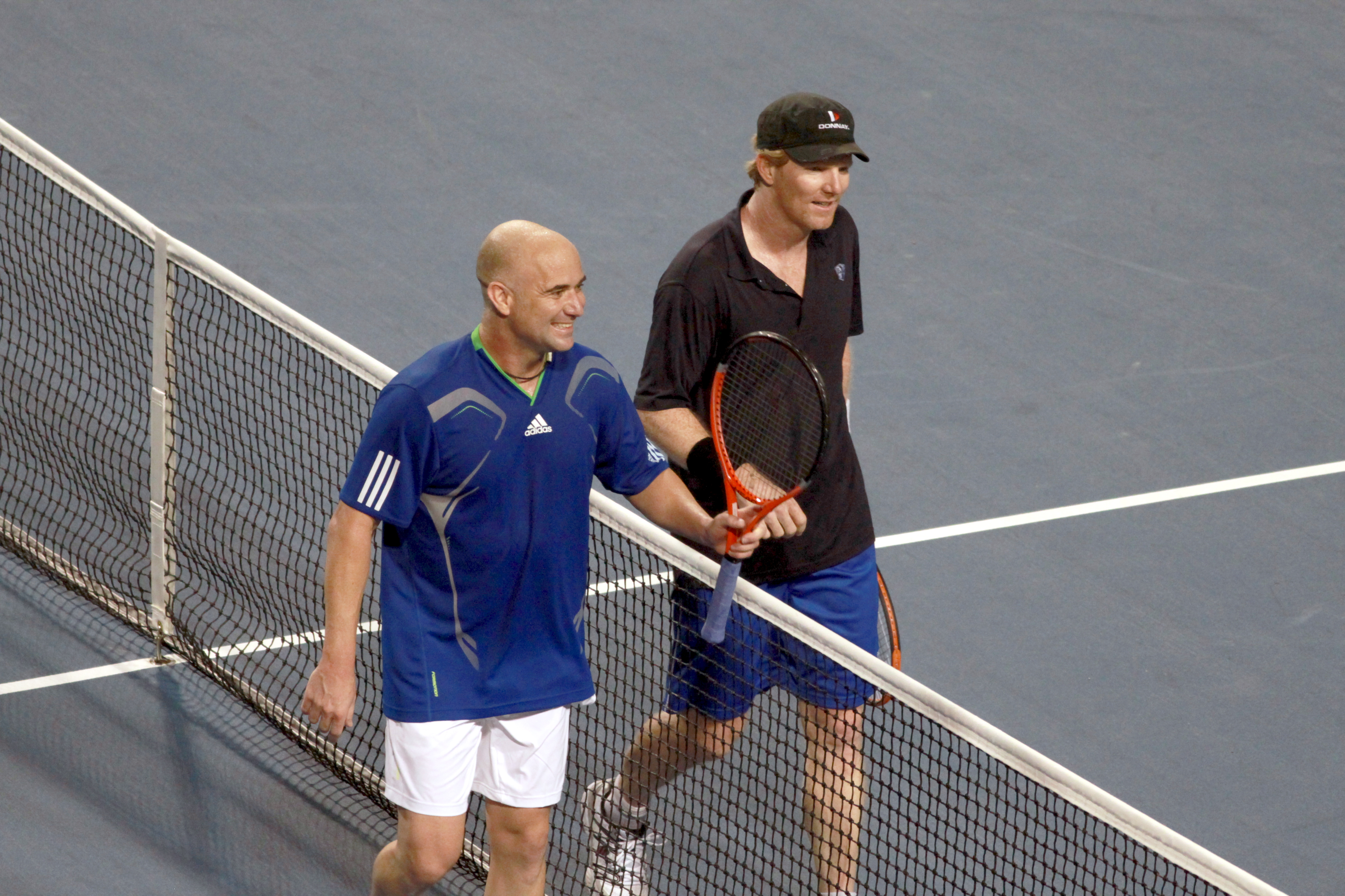 Rogers Cup 2011 Legends Andre Agassi vs Jim Courier